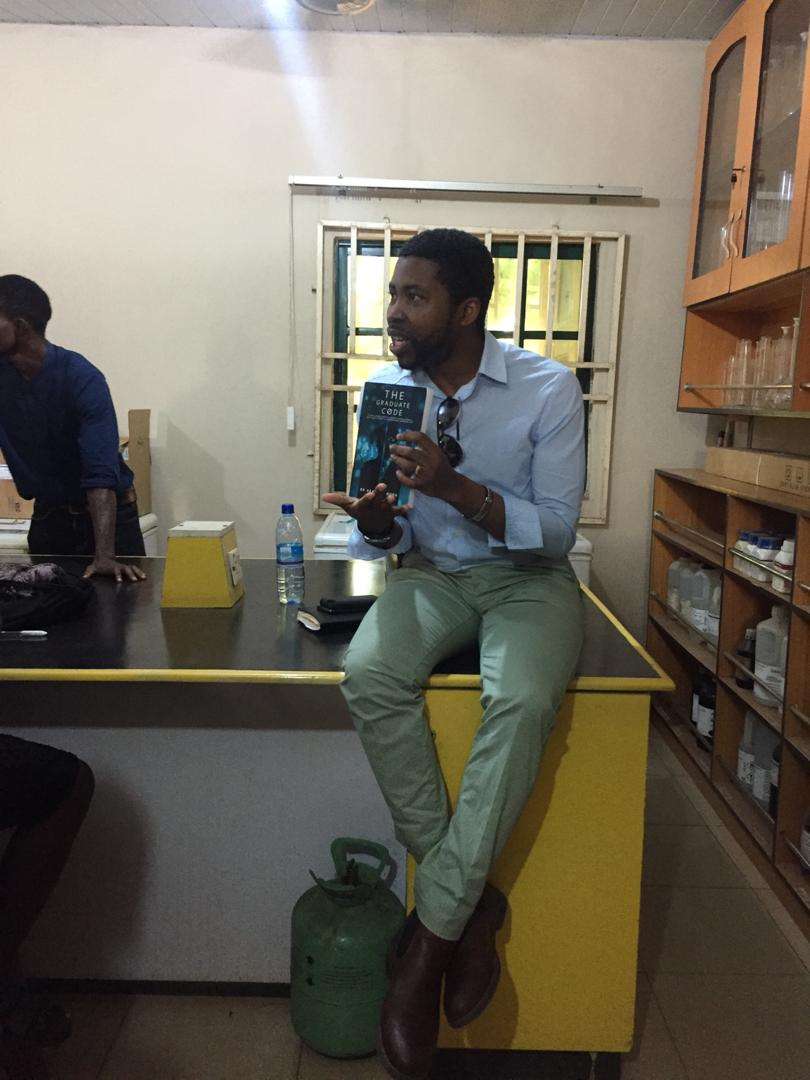 Dr. Akanimo Odon at the First Graduate Code Clinic in the University of Benin, Nigeria.